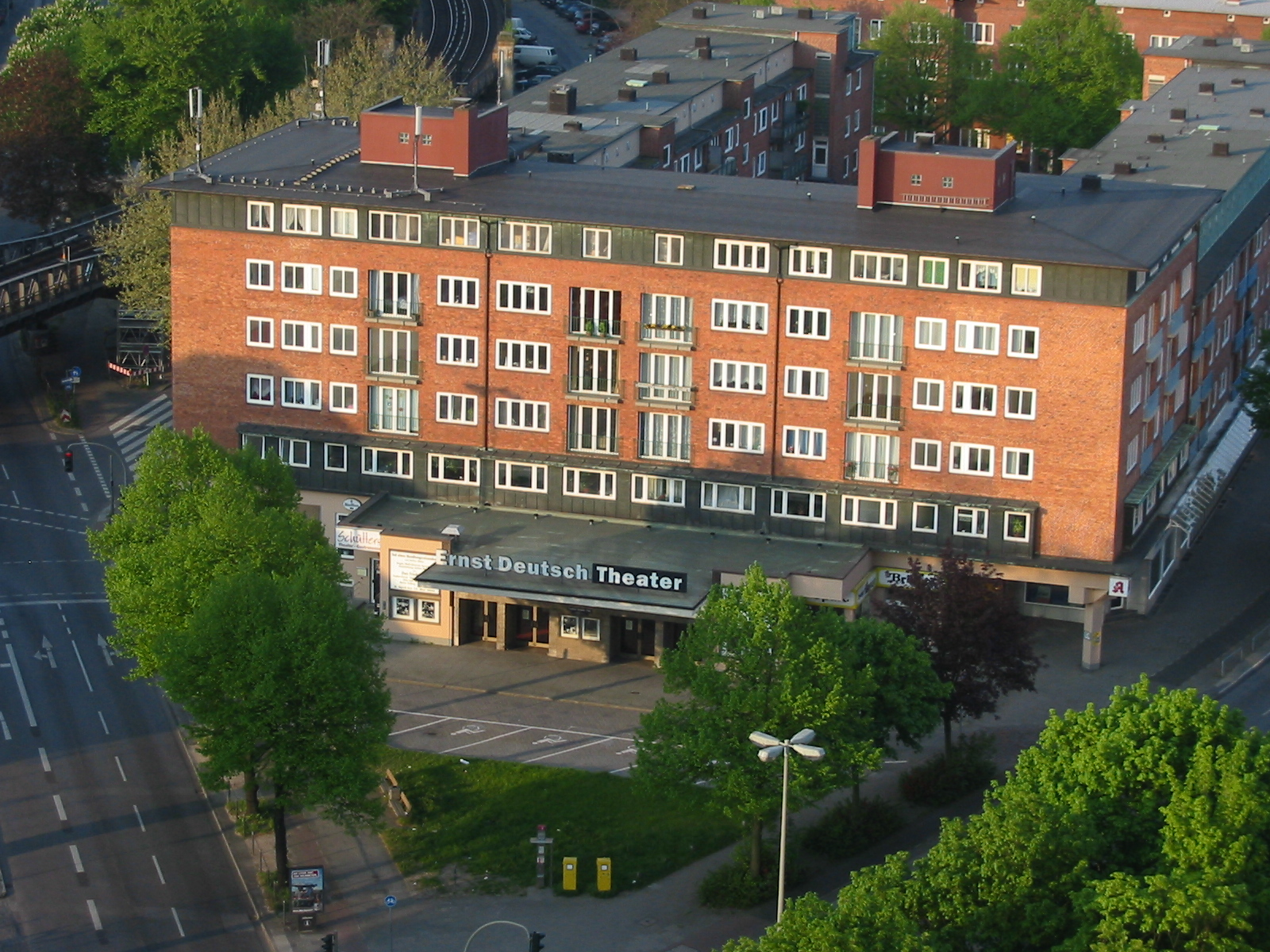 Ernst Deutsch Theater, Hamburg, Germany. Taken with a Canon Powershot A40, 1/160s, f/4.8, ISO50, 1600x1200.